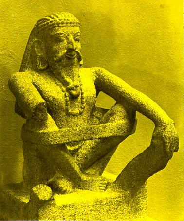 Trivandrum museum